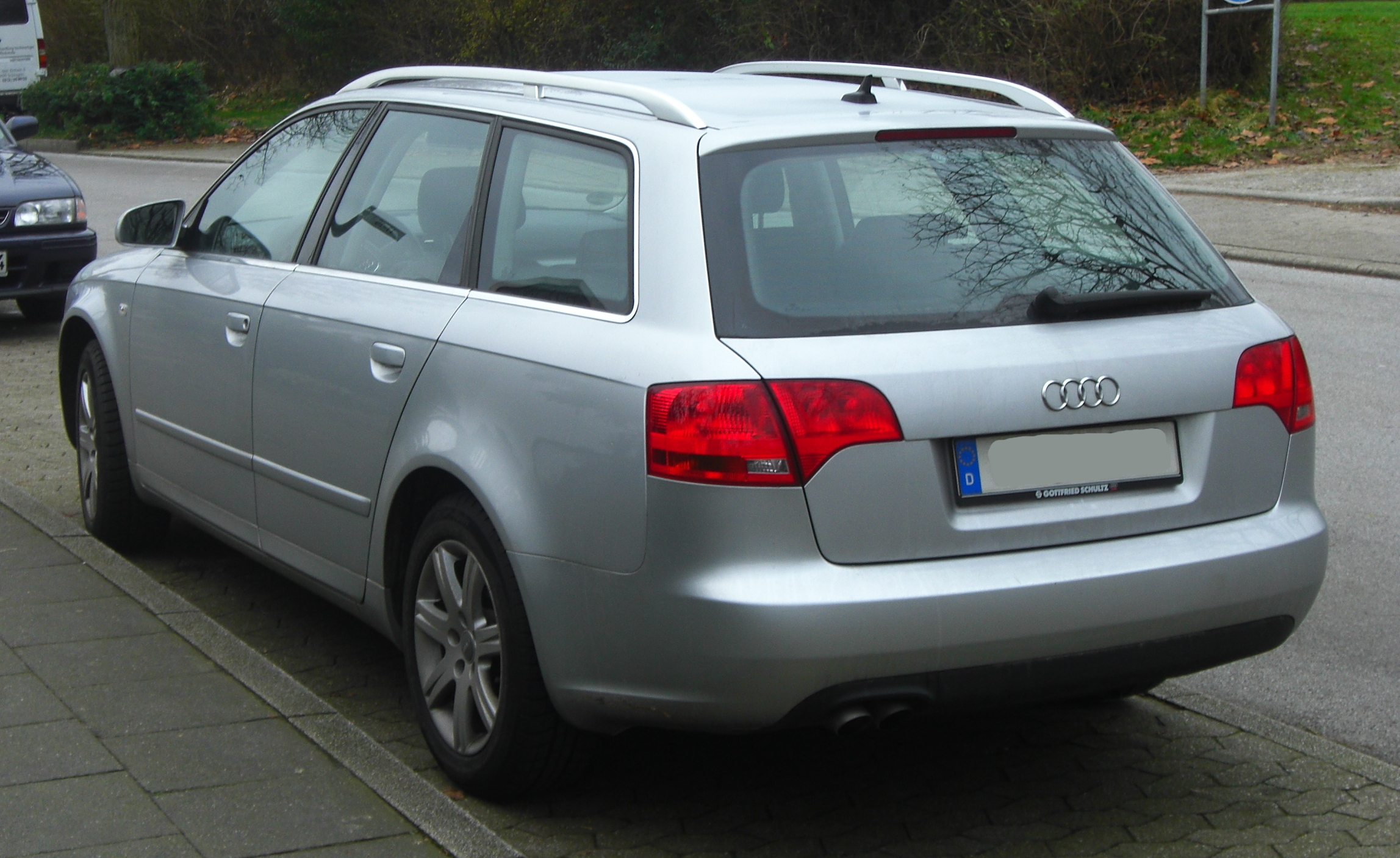 Description: Audi A4 Avant B7 Source: Matthias Other Version(s)